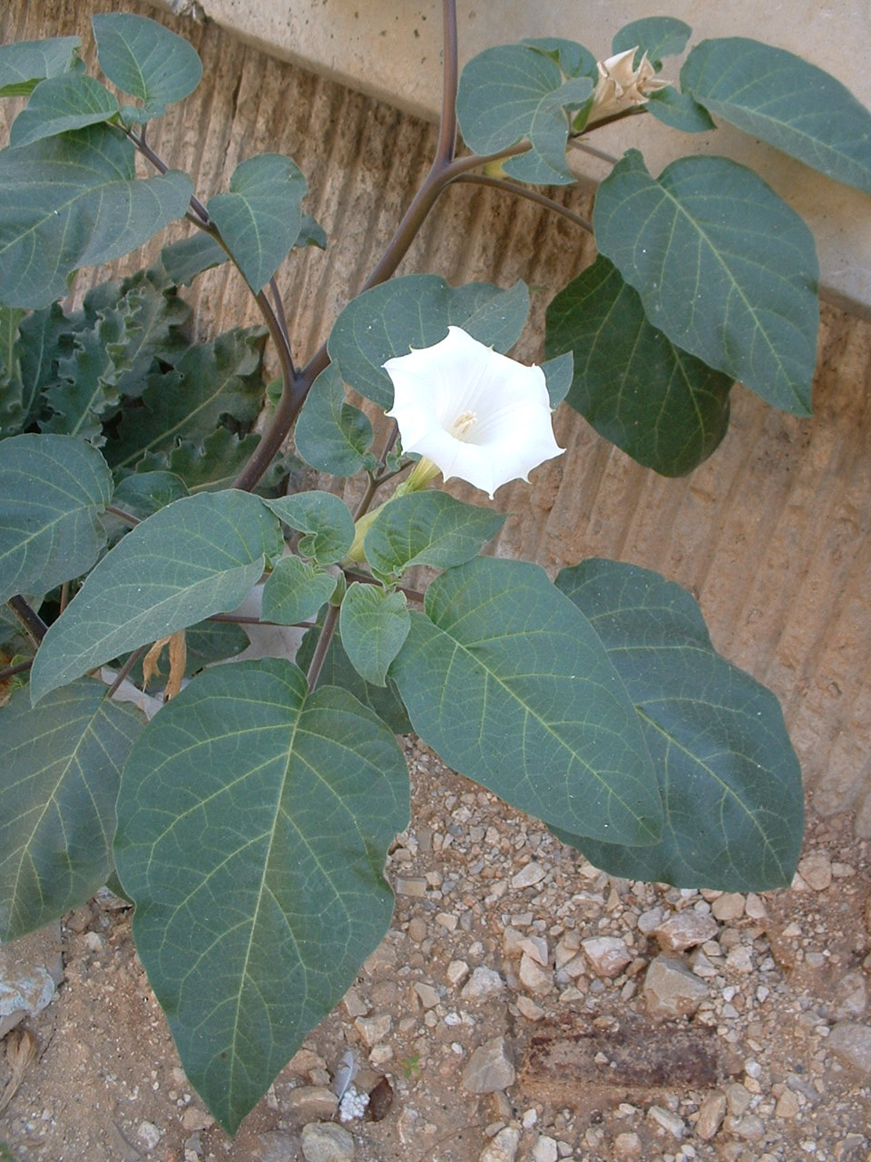 Flowring Datura innoxia plant at the Tel Aviv University train station.